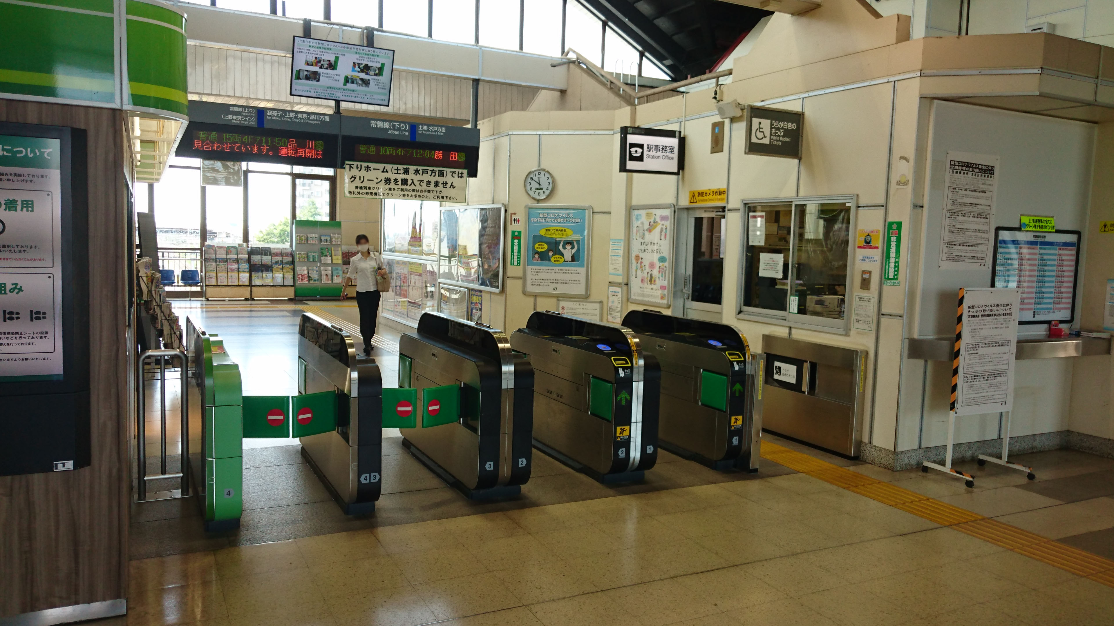 Ticket barriers of Fujishiro Station, Ibaraki, Japan.